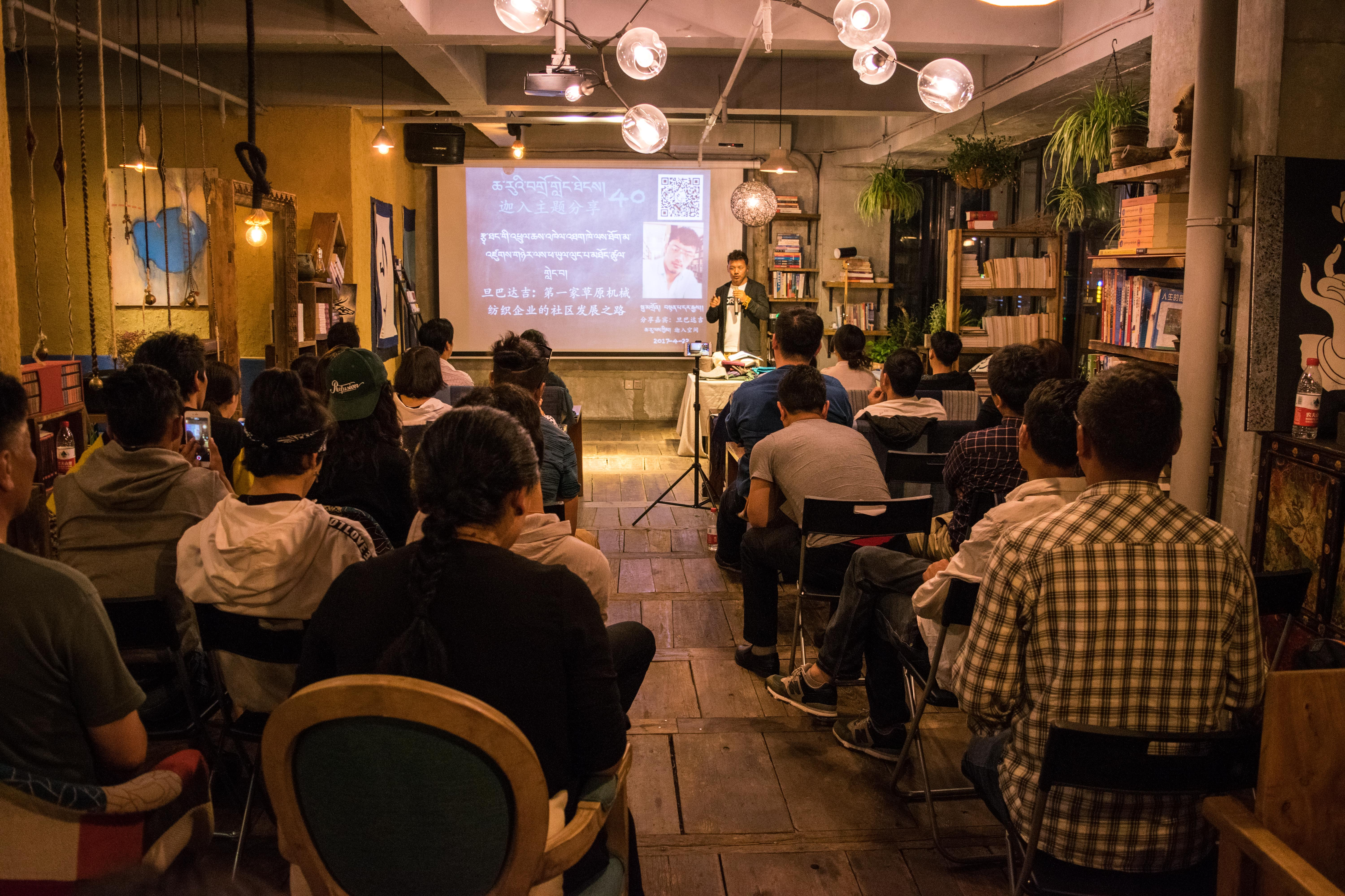 Tibetan young entrepreneur Tenpa Darje is sharing his experience of starting the business.